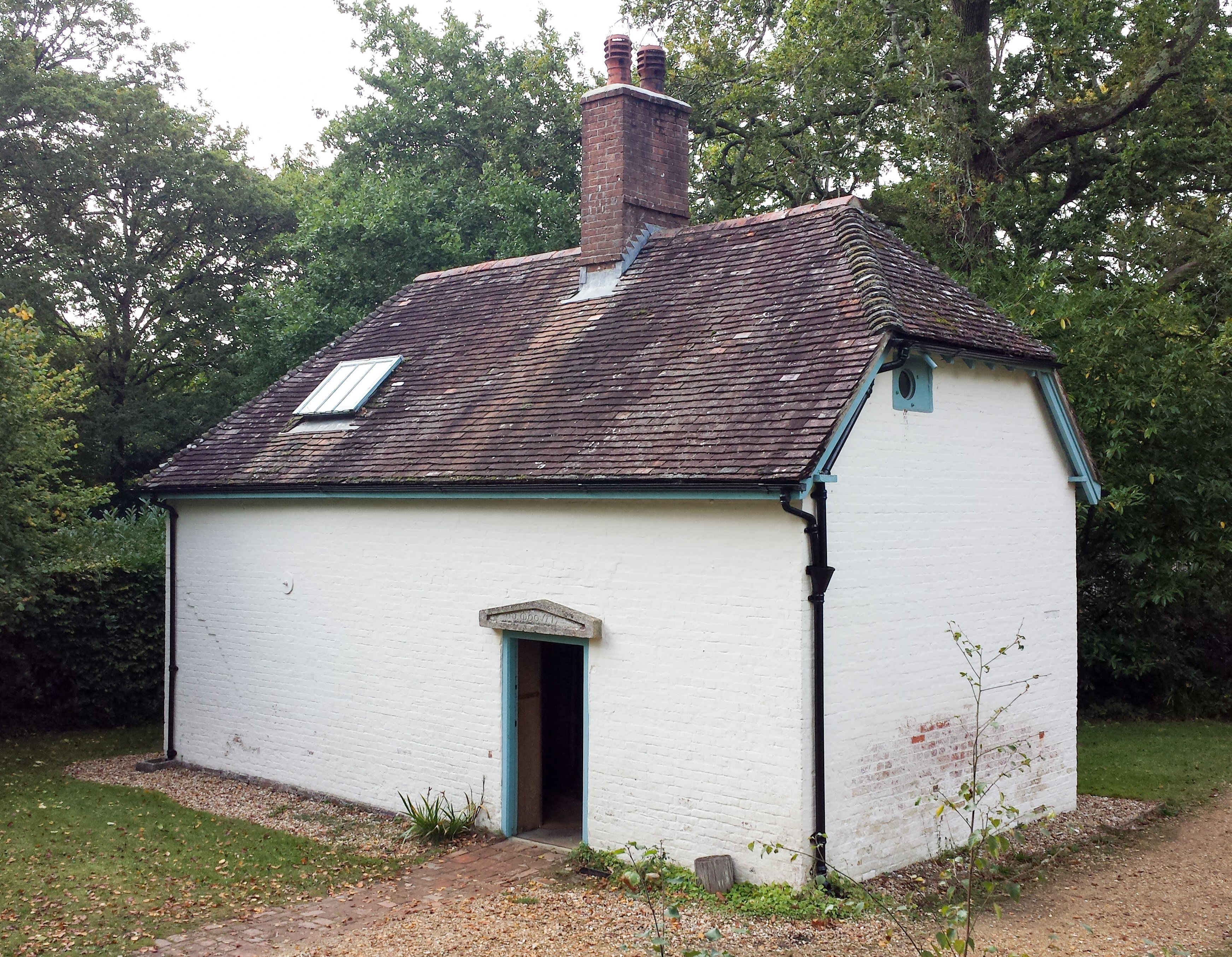 Clouds Hill, Bovington, England. T.E Lawrence's (Lawrence of Arabia) cottage.